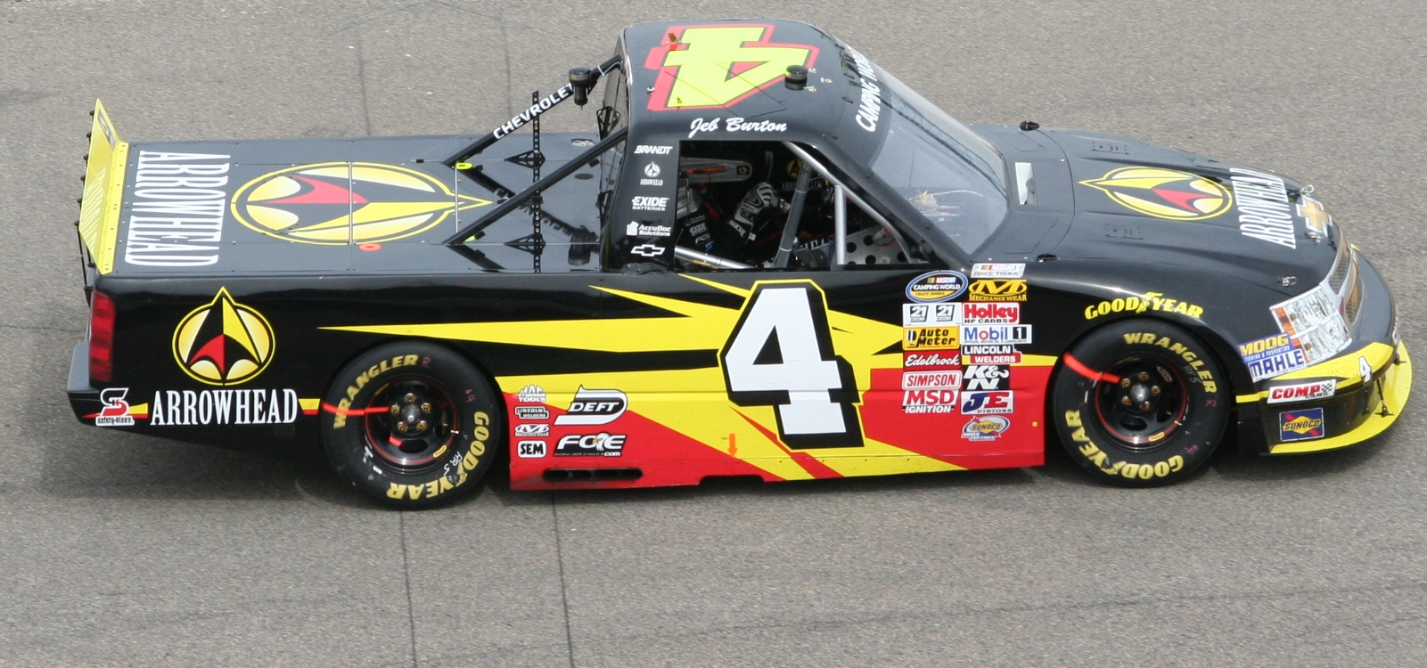 Jeb Burton drives the No. 4 Arrowhead Chevrolet during the North Carolina Education Lottery 200 at Rockingham Speedway, Rockingham, NC, April 14, 2013